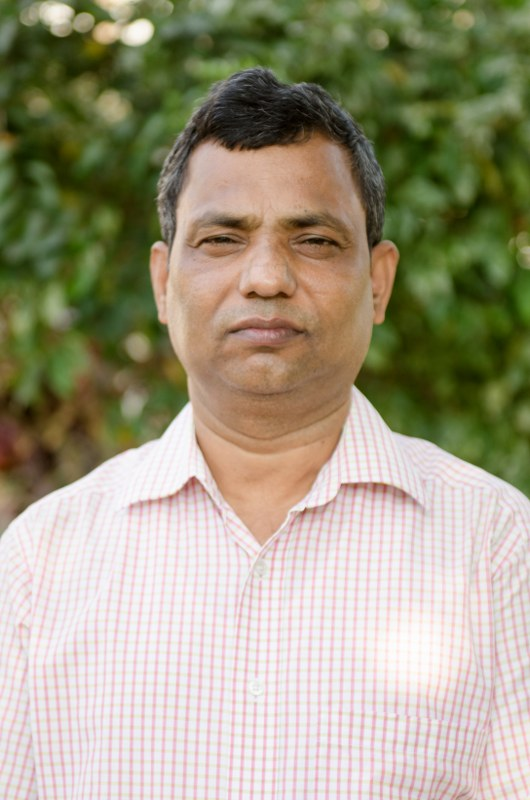 This B.N. Singh at IIT Kharagpur